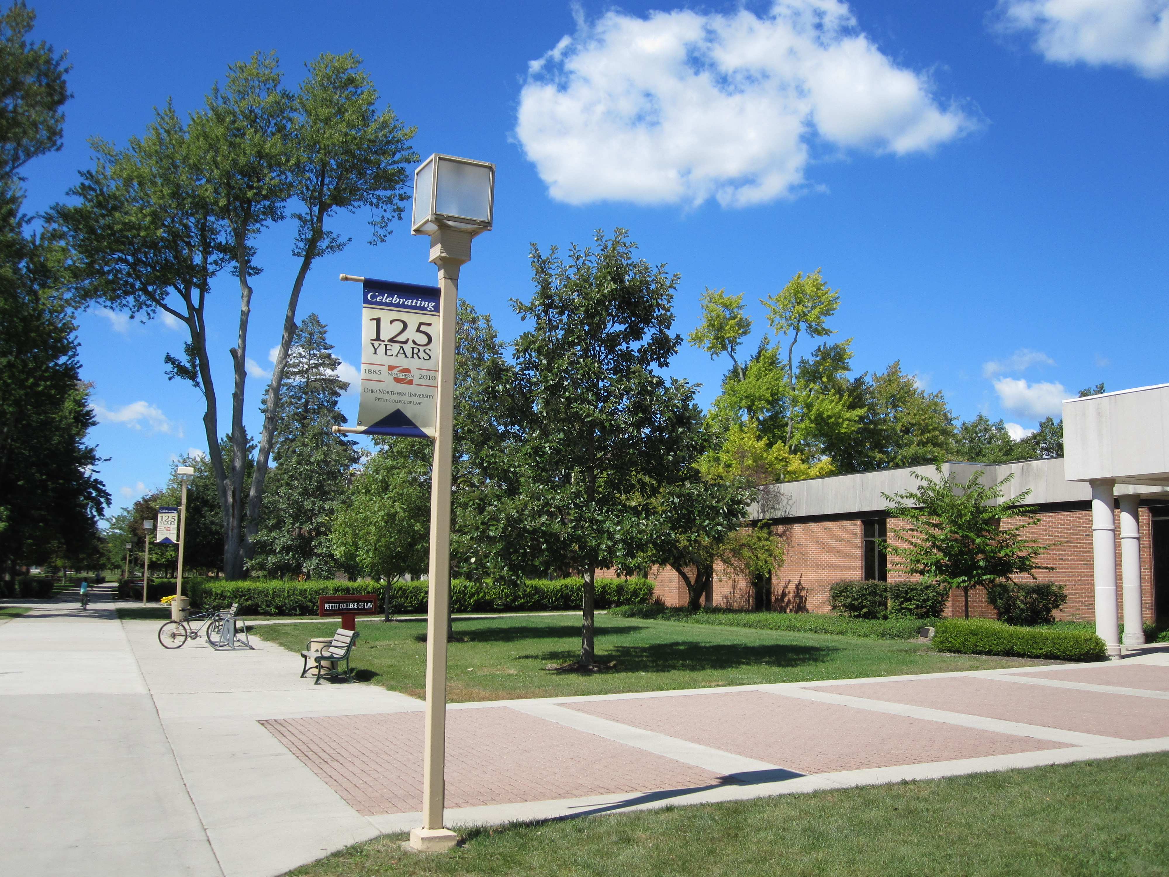 View of Tilton Hall to the West